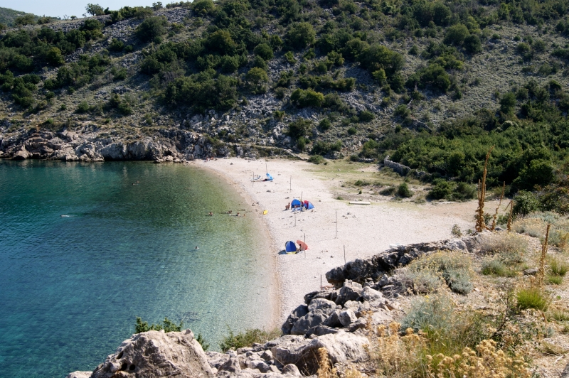 Beach of Potovosce, 3km south of Vrbnik, Island of Krk, Croatia